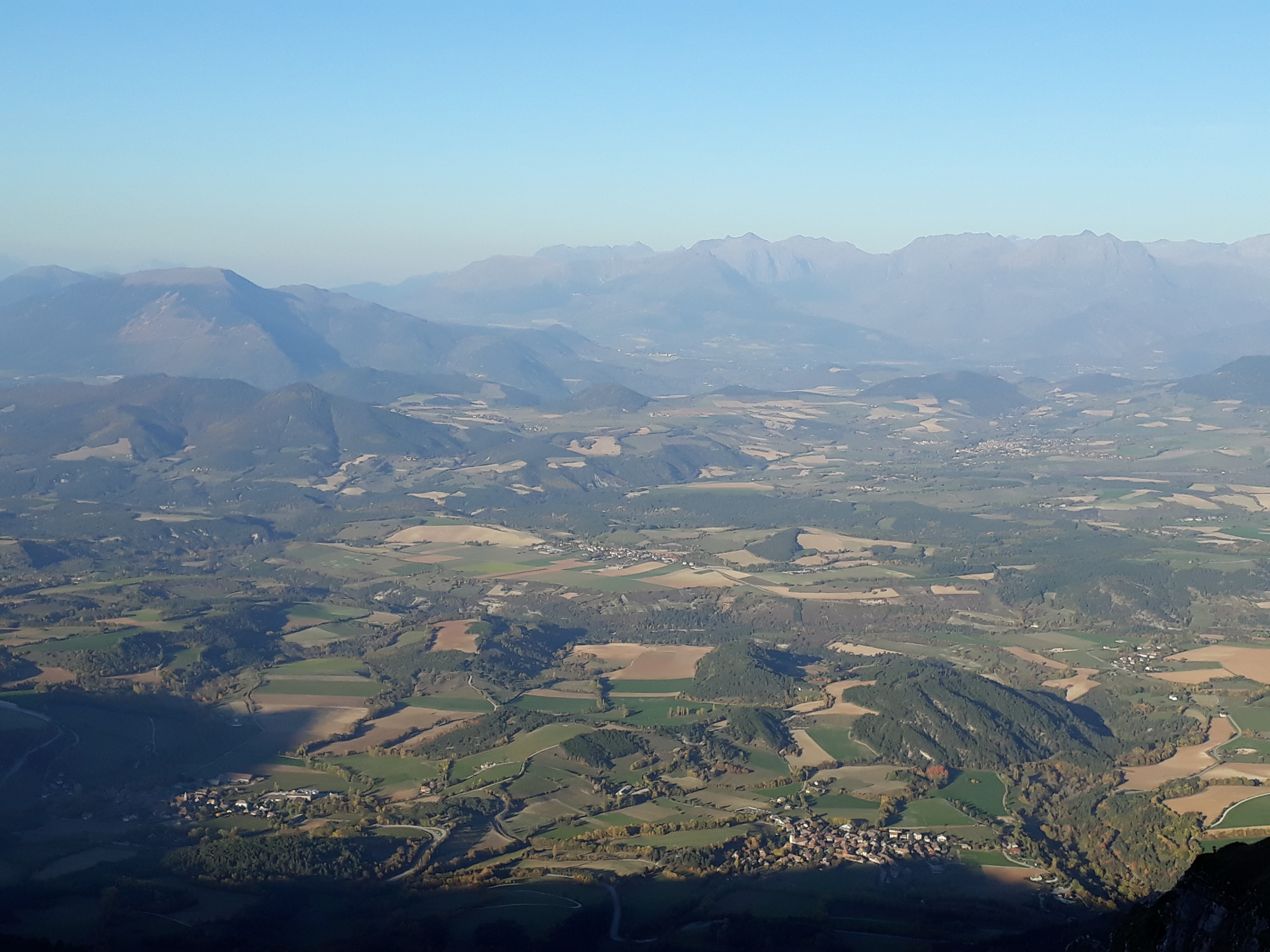 Trièves seen from Crête de Larchat